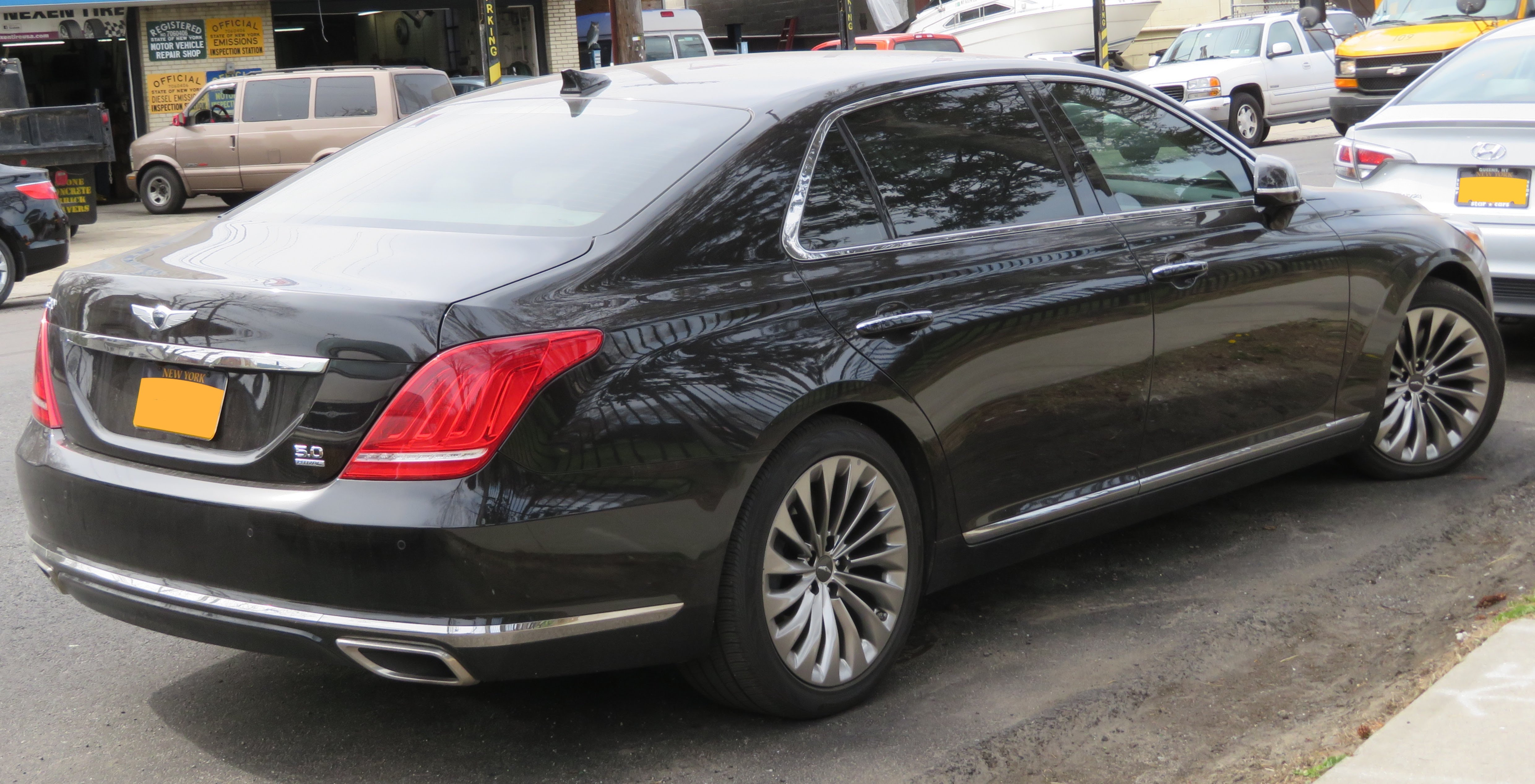 Around a Hyundai Repair Station, in Queens, New York